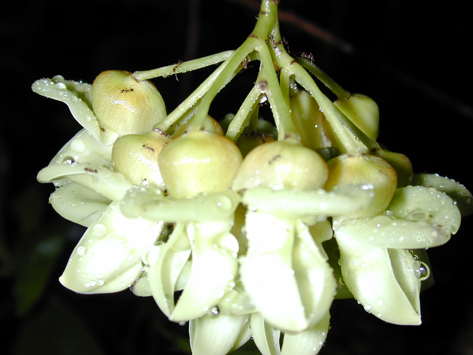 Mucuna gigantea (flowers). Location: Maui, Nahiku